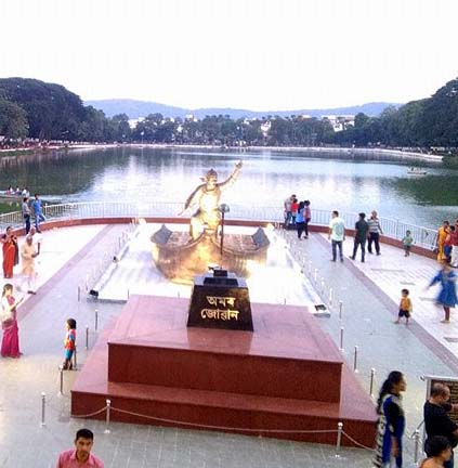 Assam's CM has inaugurated the war memorial on the north bank of Dighalipukhuri tank on 15 August 2016. অসমীয়া: ১৫ আগষ্ট ২০১৬ তাৰিখে অসমৰ মুখ্যমন্ত্ৰী শ্ৰী সৰ্বানন্দ সোণোৱাল ডাঙৰীয়াই দীঘলীপুখুৰী উত্তৰপাৰত স্থিত যুদ্ধস্মাৰকটো মুকলি কৰে।